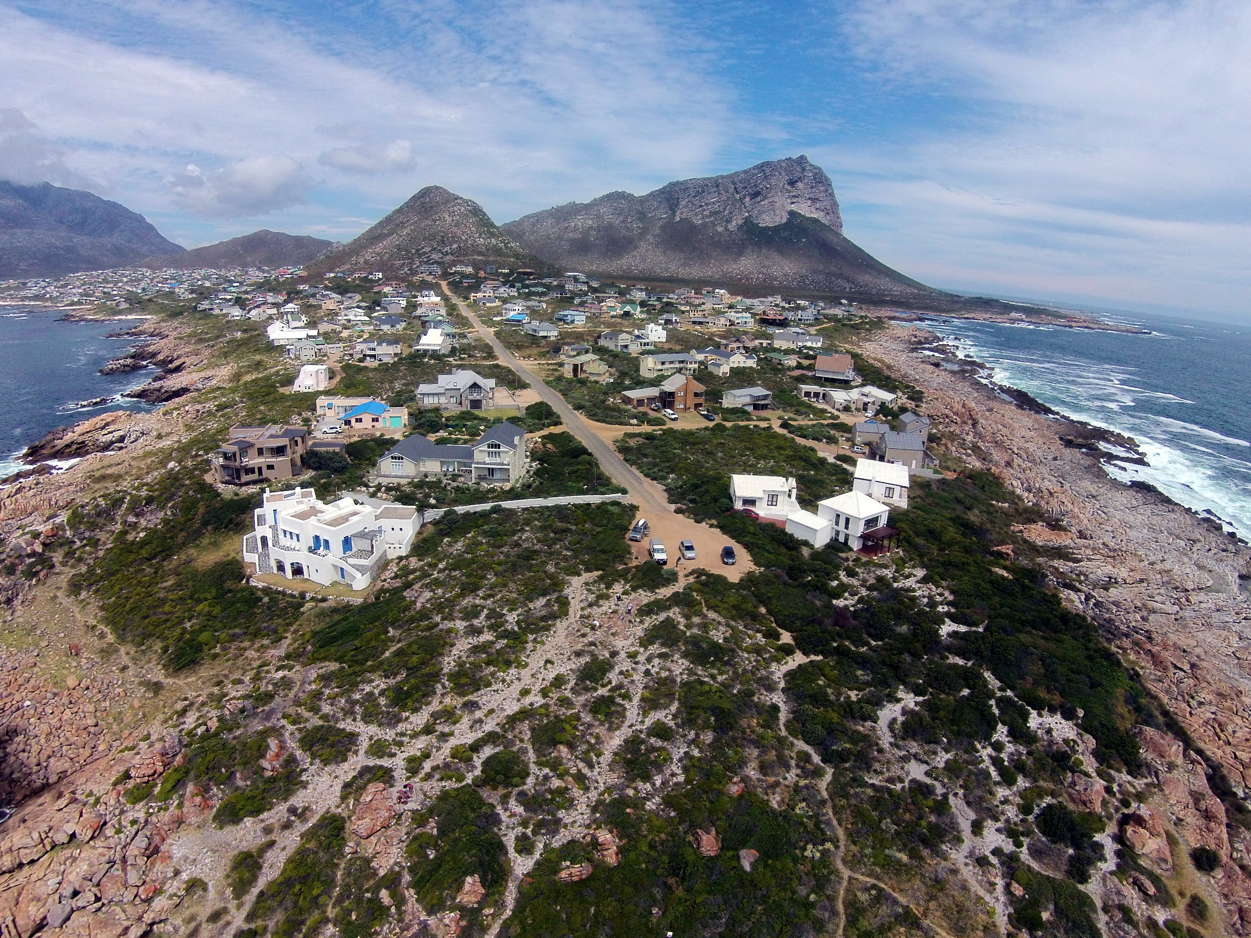 We have fallen in love with Pringle Bay in the few years that we have been coming to this wonderful seaside village only an hour away from Cape Town. There has been considerable change over the last twenty years or so, growing from only a few houses with no electricity or tarred roads to a holiday place suitable for all ages. Swimming in the river mouth is warm and safe for the toddlers with the older kids preferring the more robust boarding in the waves of false bay. Weekends will see many divers, rubber ducks and kayaks in the bay catching their quota of crayfish in one of the great diving spots for this activity. A great place to spend the most relaxing weekend you could have...